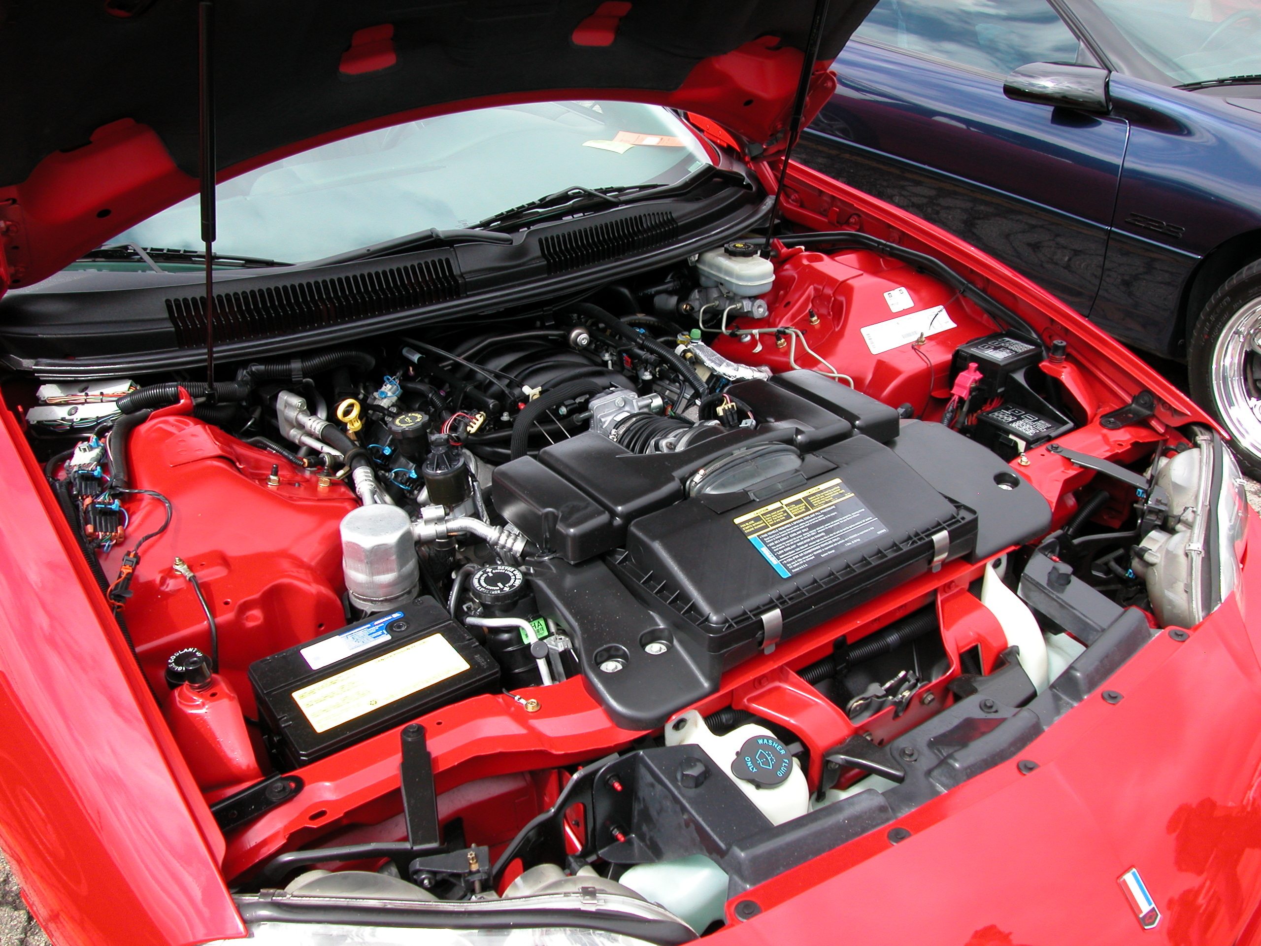 This is an image of GM's stock 5.7L LS1 V8 engine that outputs 305hp. This is from my 1998 Chevrolet Camaro Z28 and was taken during the 2003 Super Chevy Show in Pomona, CA. The camera used is a Nikon Coolpix 5000.